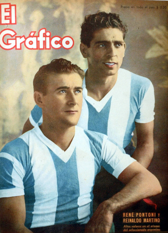 San Lorenzo's forwards René Pontoni (left) and Rinaldo Martino with the Argentina national football team in 1945.